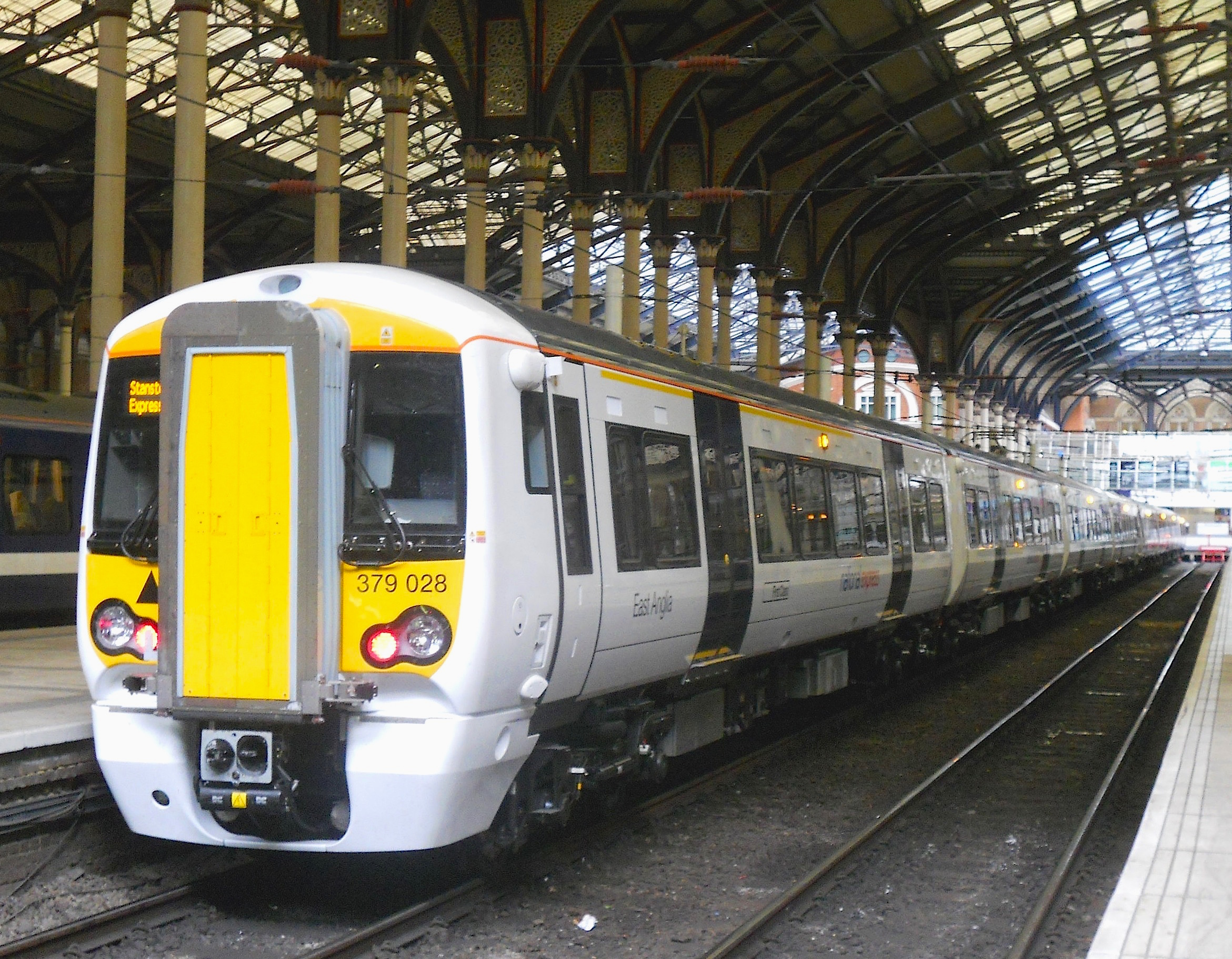 National Express Class 379 No. 379028 at London Liverpool Street